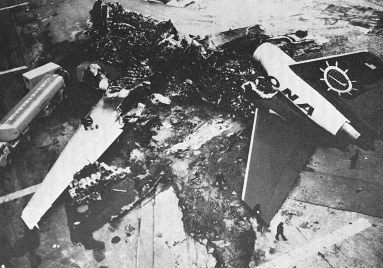 Overseas National Airways Flight 032（N1032F） wreckage